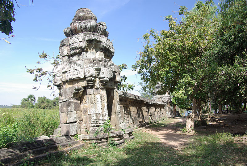 Angkorian Temple of West Mebon